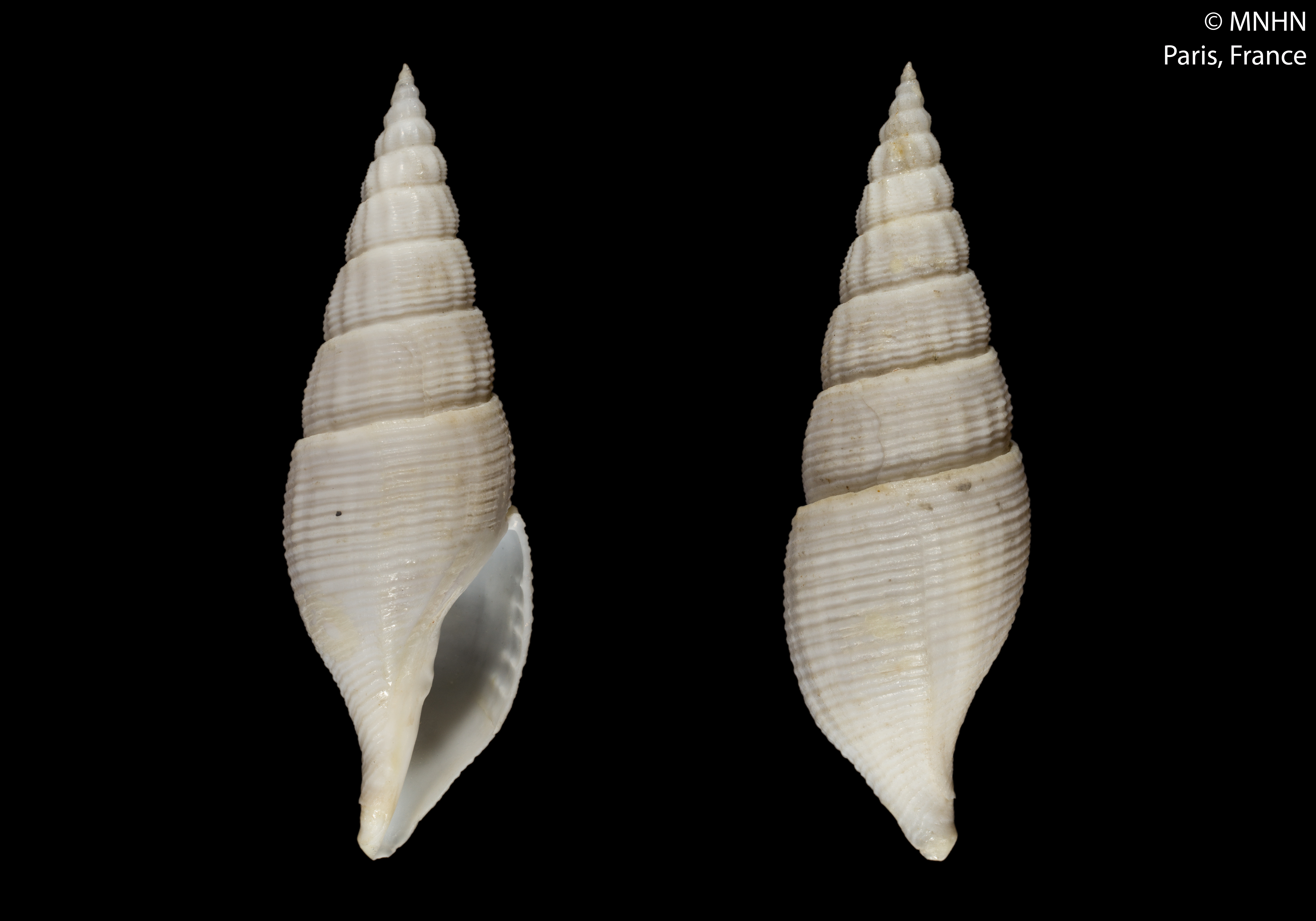 Manaria chinoi Fraussen, 2005 HOLOTYPE (MNHN-IM-2000-5802). Size 81.8 mm. Type locality: Philippines, Mindanao, off Davao Island, 160 m.